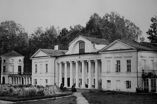 Denezhnikovo, a Neoclassical chateau of the Talyzin noble family